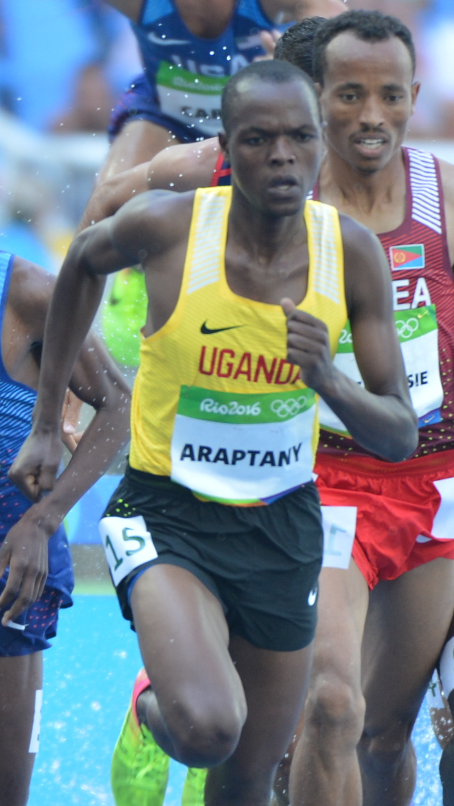 Jacob Araptany in the men's 3,000-meter steeplechase on Aug. 17 at the 2016 Rio Olympic Games in Rio de Janeiro. U.S. Army photo by Tim Hipps, IMCOM Public Affairs #SoldierOlympians #ArmyOlympians #ArmyTeam #GoArmy #TeamUSA #ArmyStrong #RoadToRio